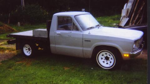 Ford Courier photographed by Jeff (ke7ace) in USA.